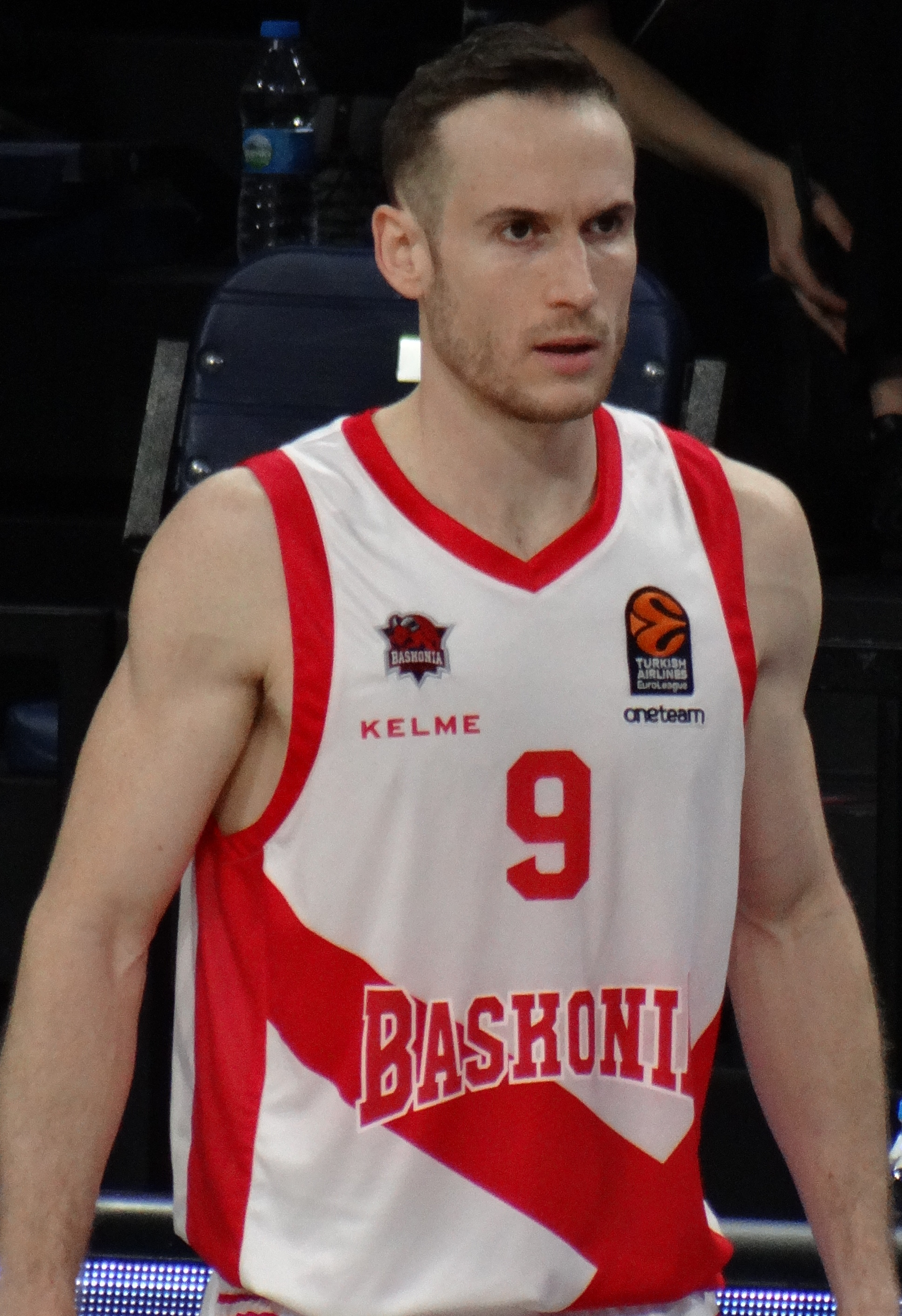 Marcelo Huertas 9 - Saski Baskonia 20171215